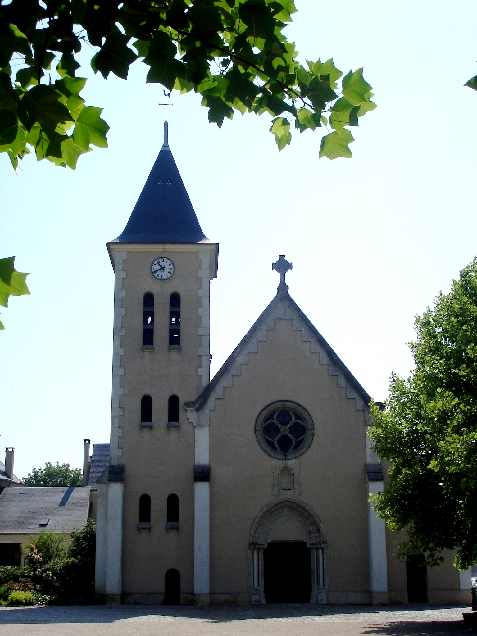 Church in the village of Annet-sur-Marne in Île-de-France (France)